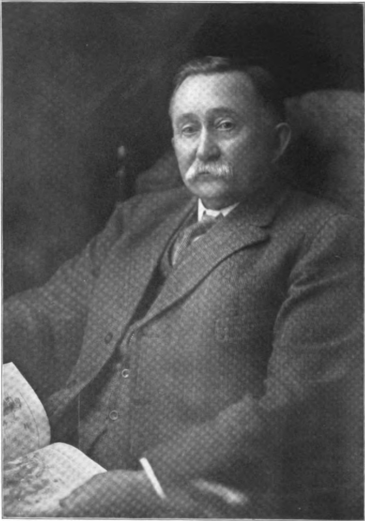 Portrait of Frank Mason Robinson of the Coca-Cola company, seated wearing a suit and tie, with a book in his lap